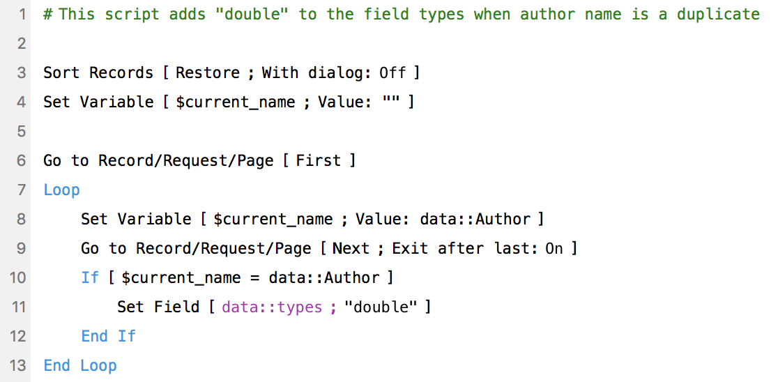 This script loops through a list and flags duplicate entries in the list.